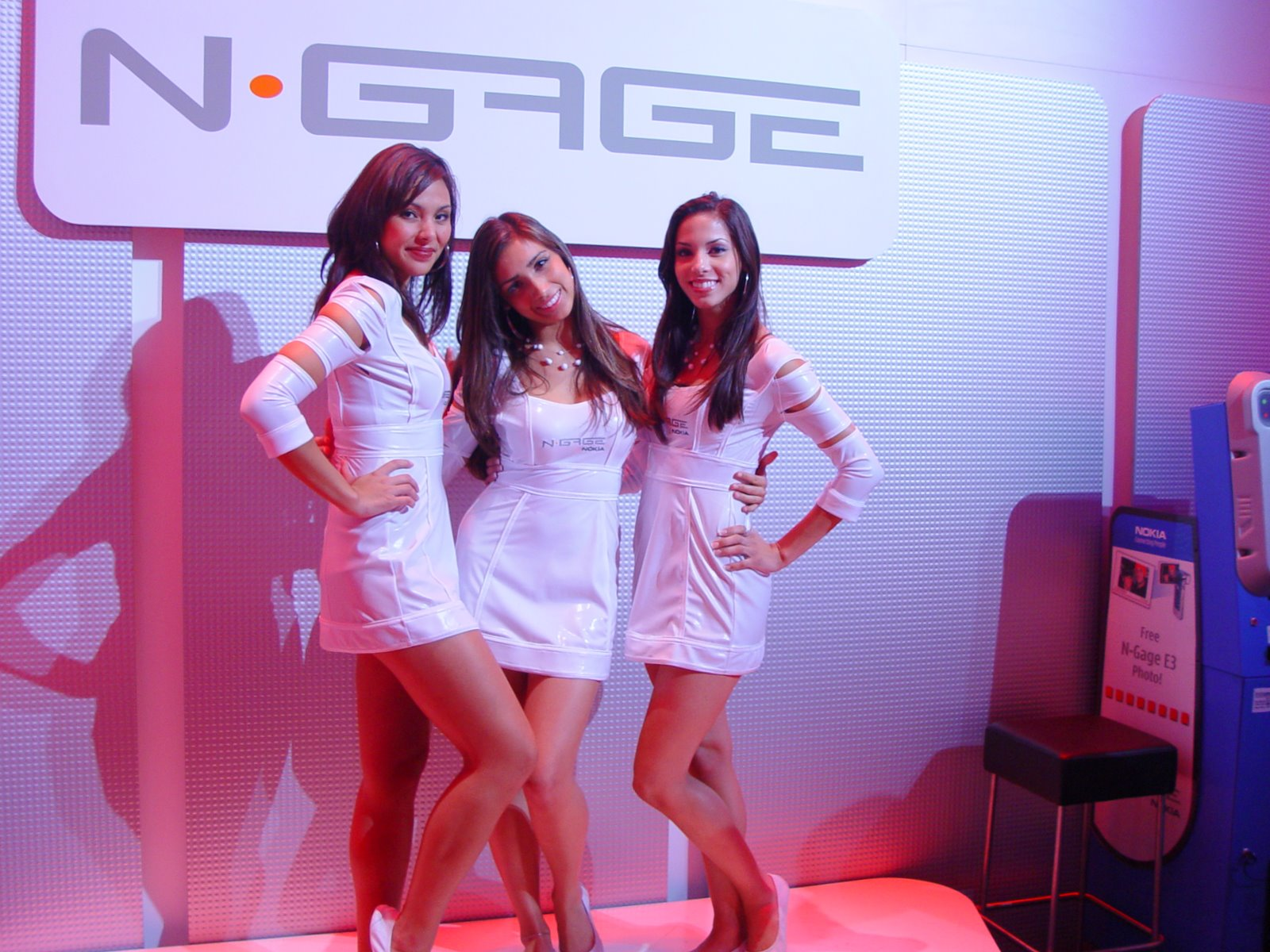 N-Gage Booth babes